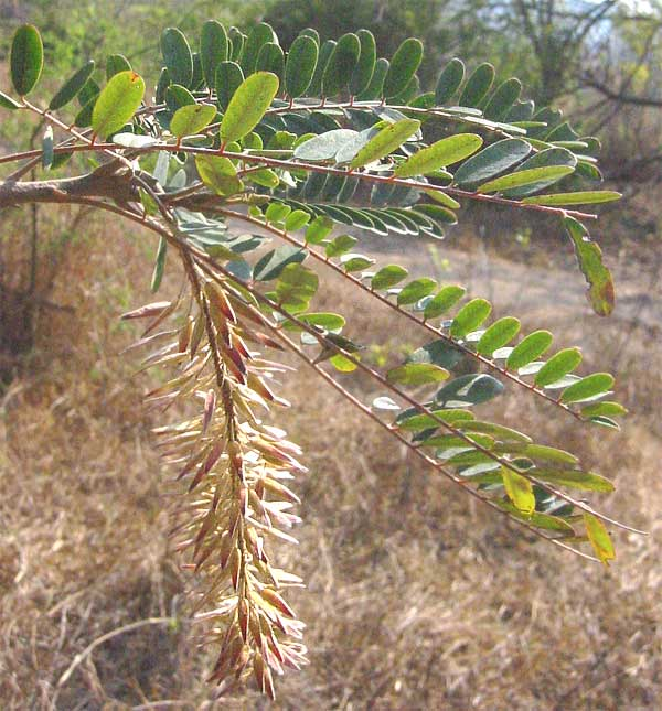 Fruiting branch and leaves of Alvaradoa amorphoides (Mexican Alvaradoa)